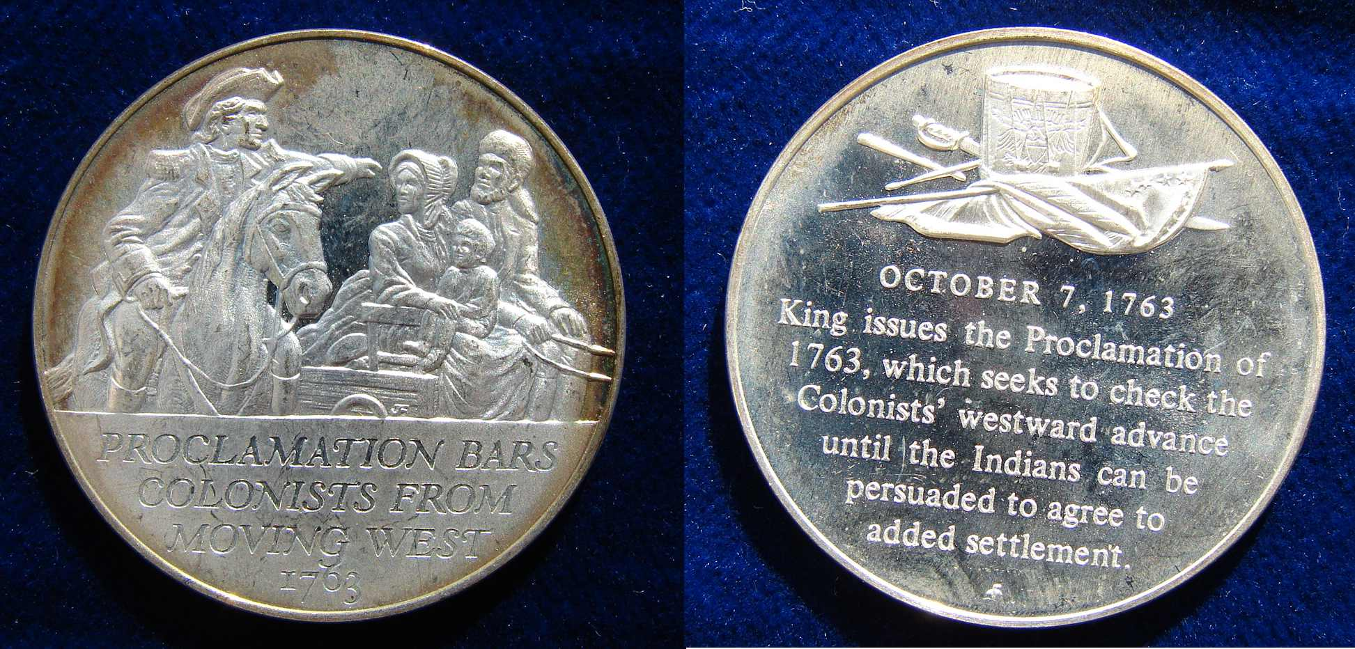 14.53 g Sterling Silver. D = 32 mm Proclamation of King George III after the 7 years war. British soldier on horseback showing a family of migrants where to go. 4 lines below: "PROCLAMATION BARS COLONISTS FROM MOVING WEST 1763"/ 7 lines below military symbols: "OCTOBER 7, 1763 King issues the Proclamation of 1763, which seeks to check the Colonists' westward advance until the Indians can be persuaded to agree to added settlement." Medallist: JF. Franklin Mint edition 1970. Condition: UNCIRCULATED MS63+